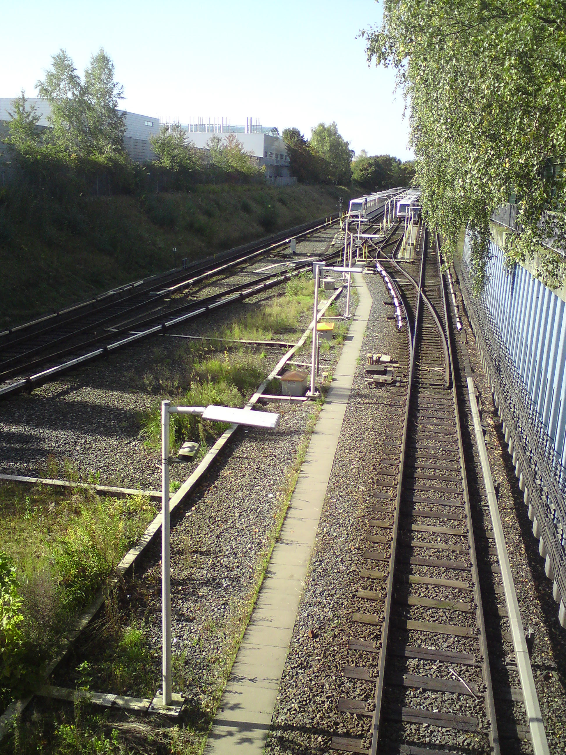 Railroads at Underground Station Ochsenzoll, Hamburg, Germany